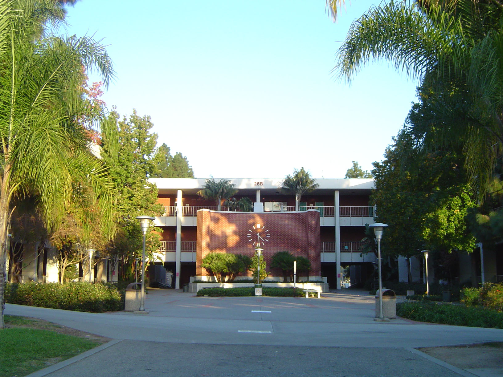 Photographed and uploaded by user:Geographer. Mt. San Antonio College, Nov 6, 2004